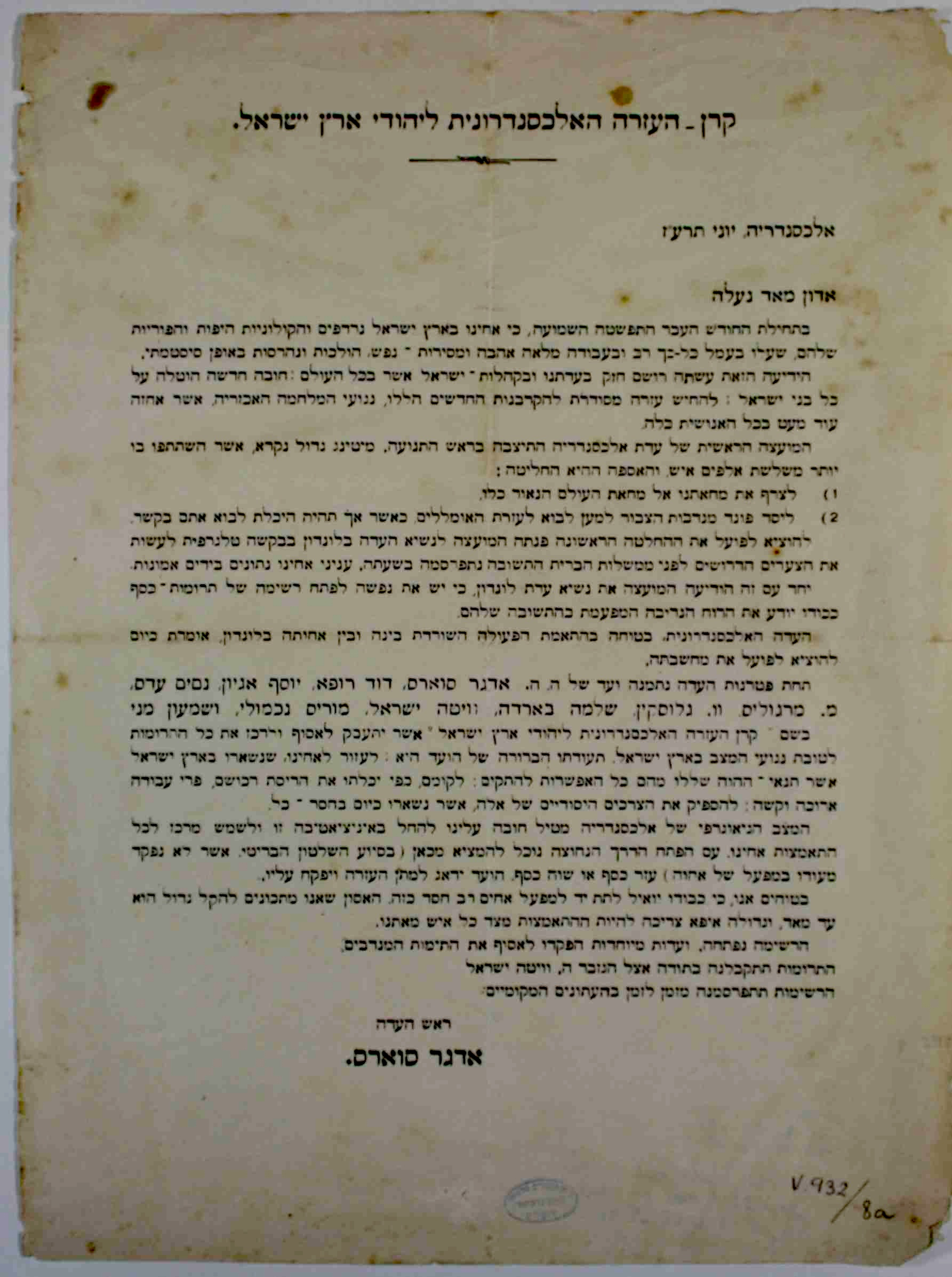 Request for donations for the Jews deported to Egypt